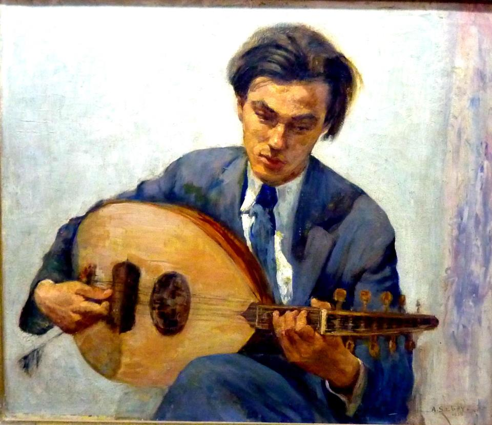 This portrait of Bicar playing the lute is also known as “Blues”, it was painted in 1934 by Ahmad Sabry who was Bicar’s mentor and lifelong friend. It is displayed in the museum of modern art in Cairo, for this reason it is licensed under "Freedom of Panorama" in Egypt.